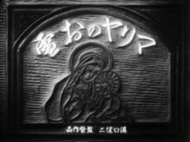 Maria no Oyuki